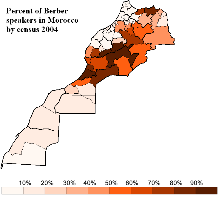 Percent of Berber speakers in Morocco by census 2004 Based on data found Here